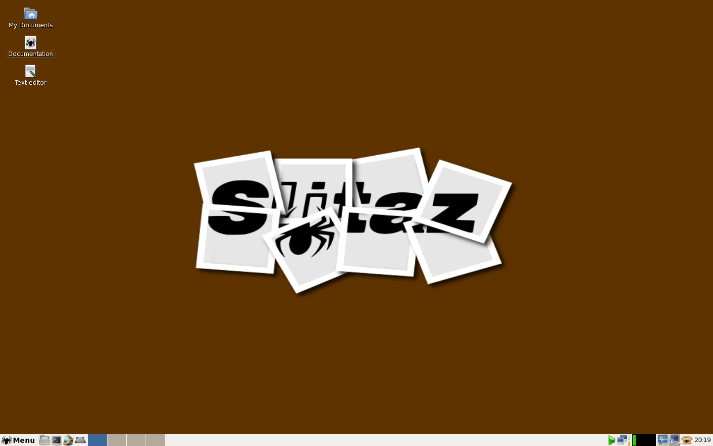 SliTaz GNU/Linux Screenshot